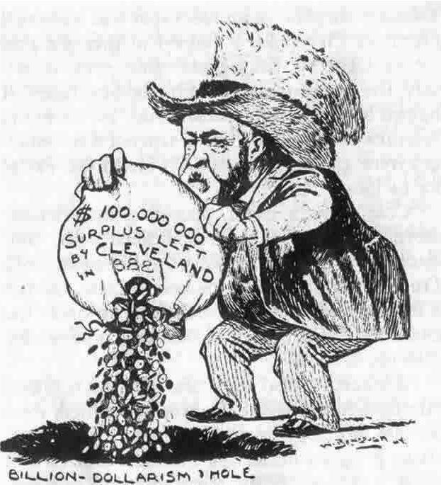 Harrison portrayed as wasting the surplus gained under Cleveland